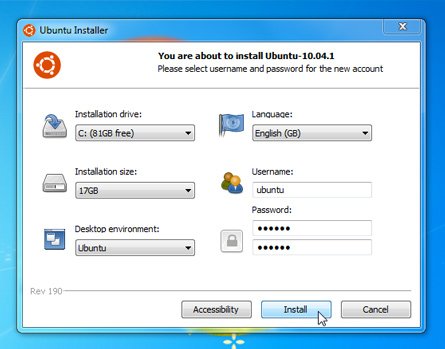 Windows installer (Wubi) of Ubhuntu 10.04 LTS